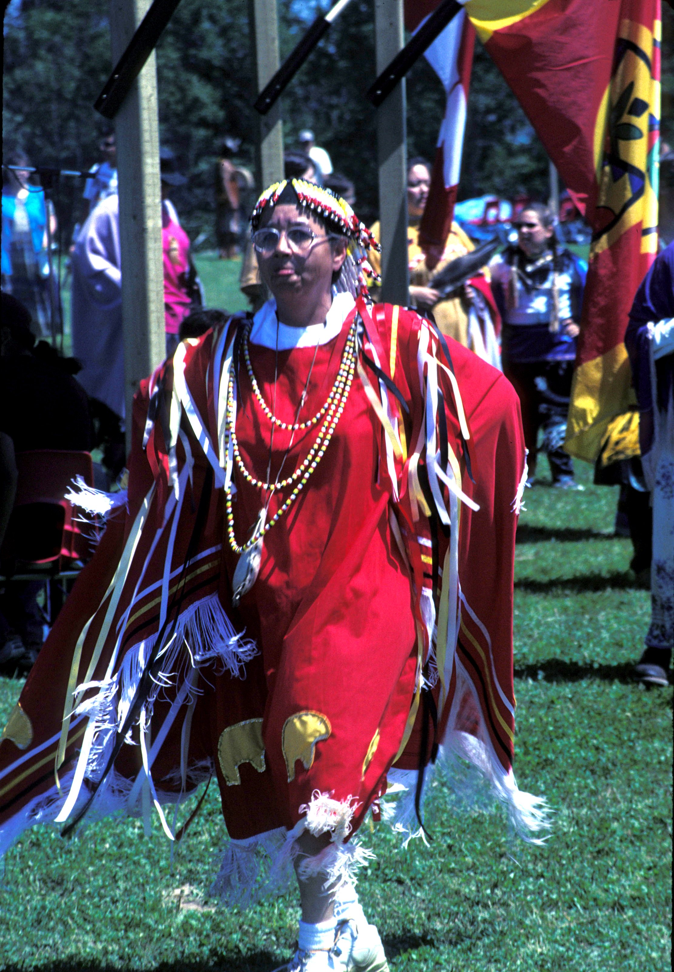 Photograph of Dancer at 2000 Pow-wow at Eel Ground First Nation